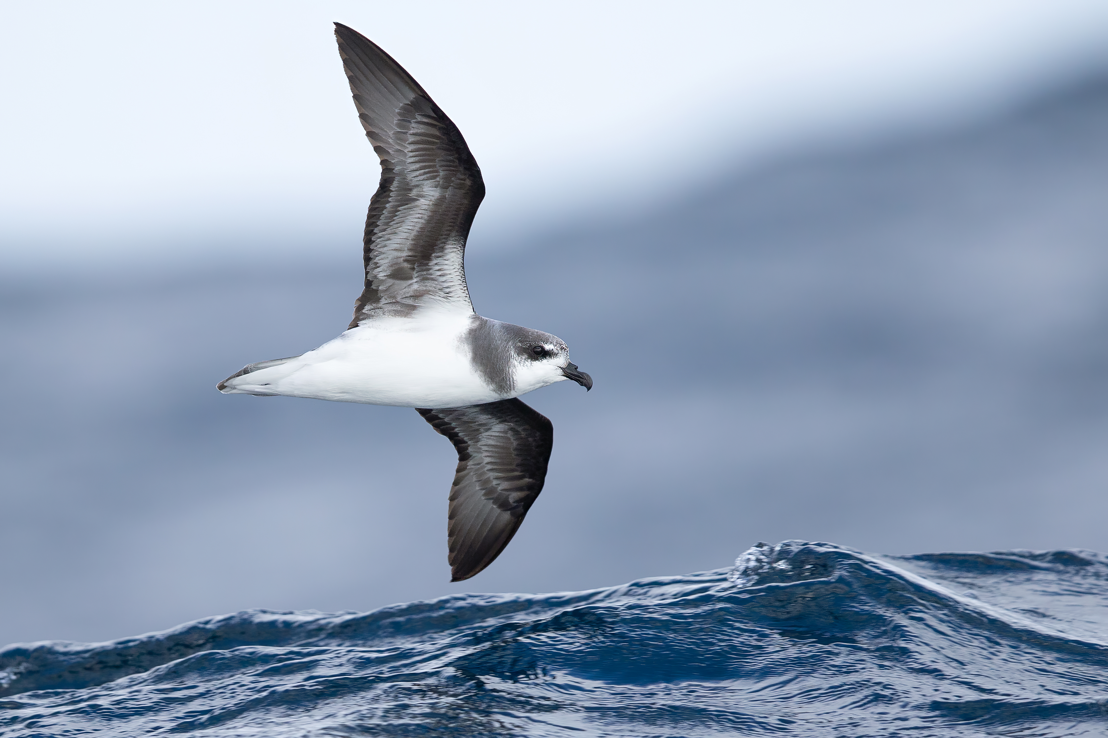 Soft-plumaged Petrel (Pterodroma mollis) light morph, off Eaglehawk Neck, east of the Tasman Peninsula, Tasmania, Australia